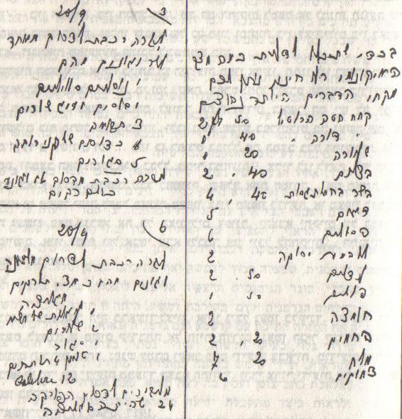 Nili intelligence report